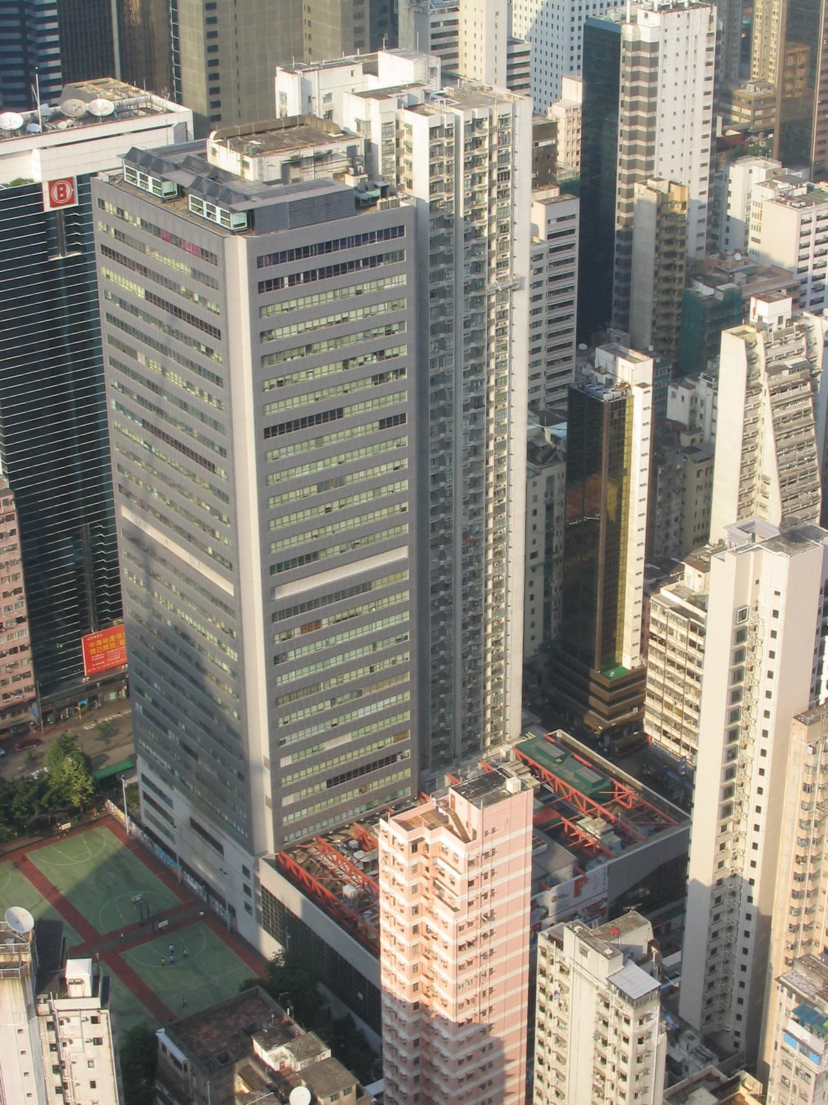 Southorn Centre